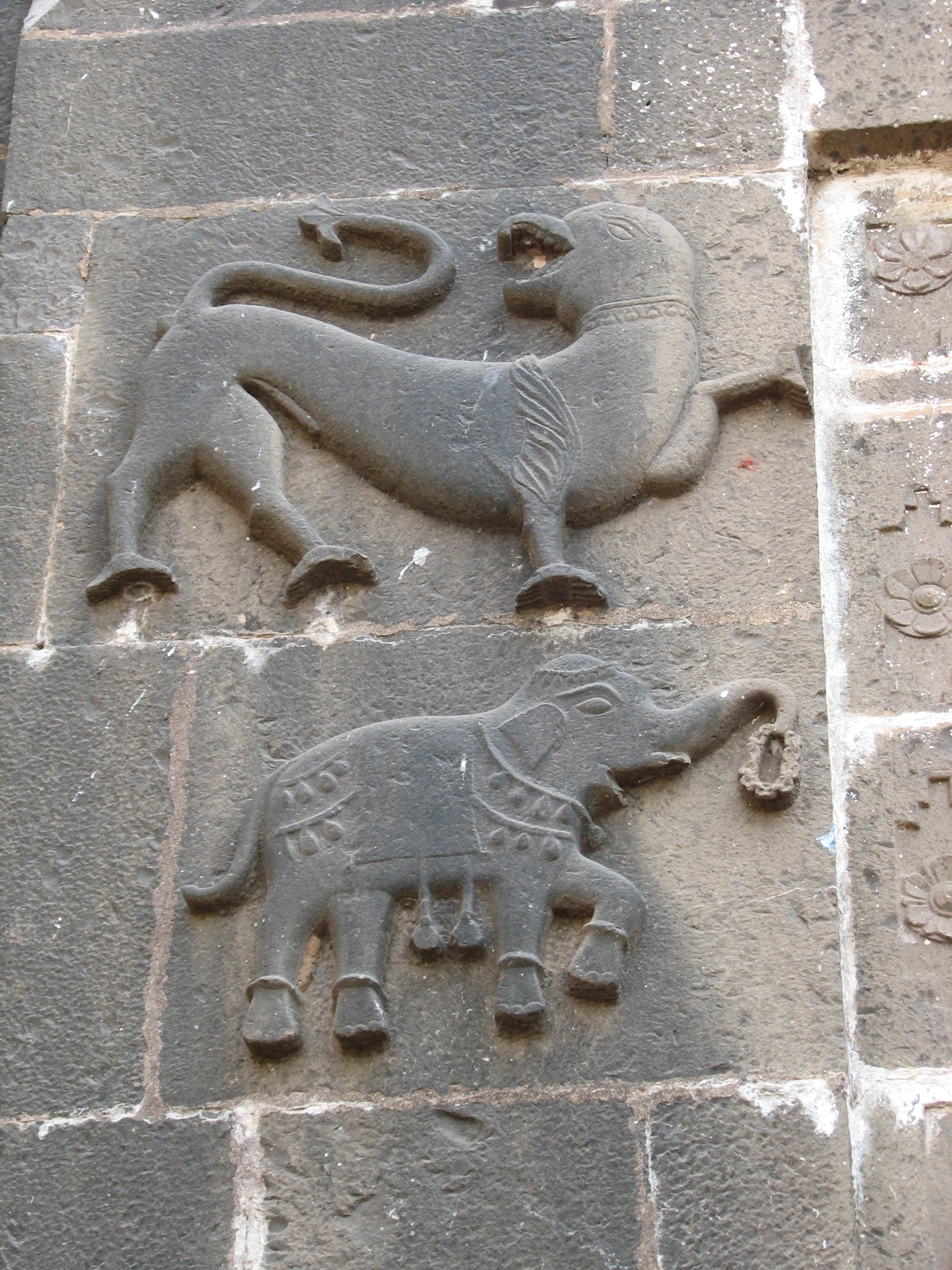 Detail of the designs on the entrance to Arnala Fort